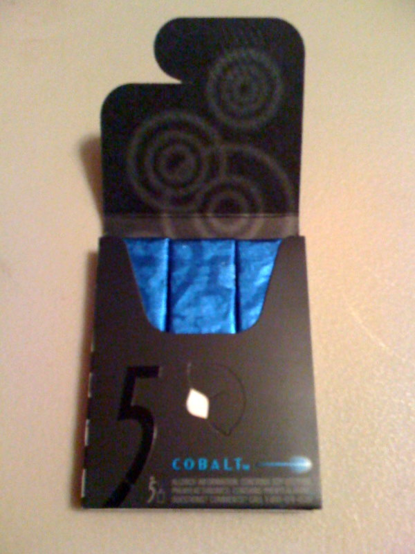 A pack of Cobalt 5 gum. (Photographed in Florida, USA.)